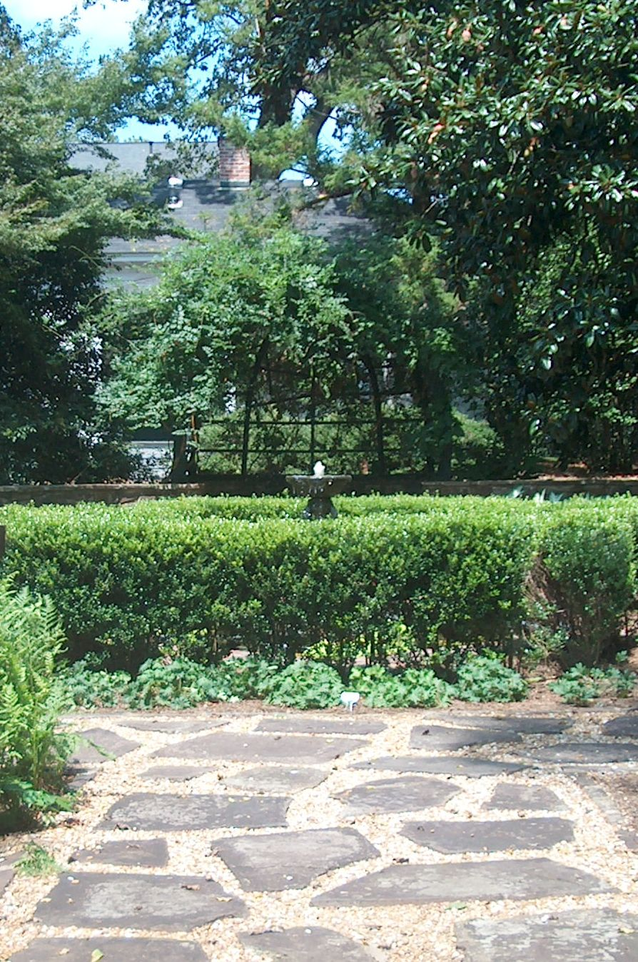 Berry Museum's Goldfish Garden.